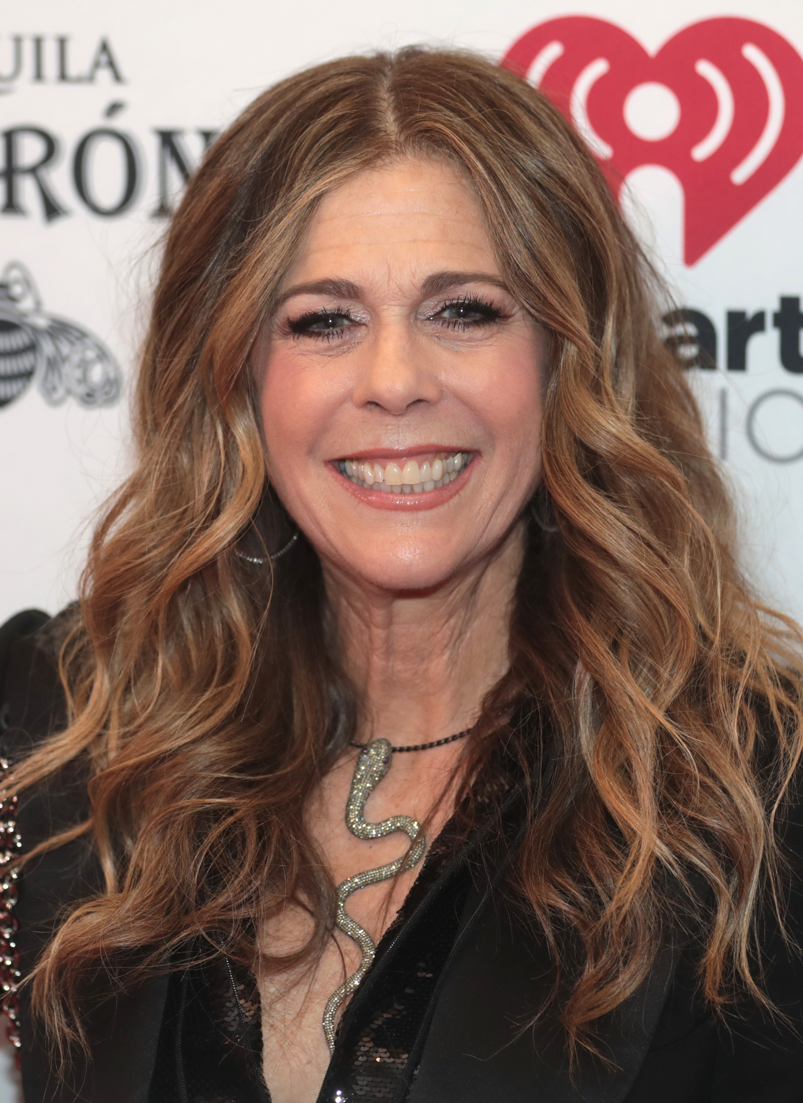 Rita Wilson at Celebrity Fight Night XXV in Phoenix, Arizona.